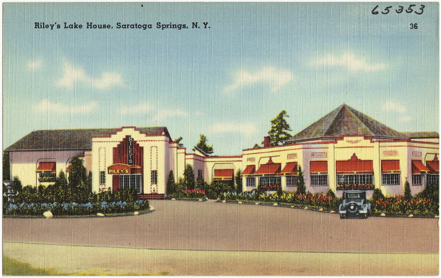 Postcard showing Riley's Lake House in Saratoga Springs, New York.